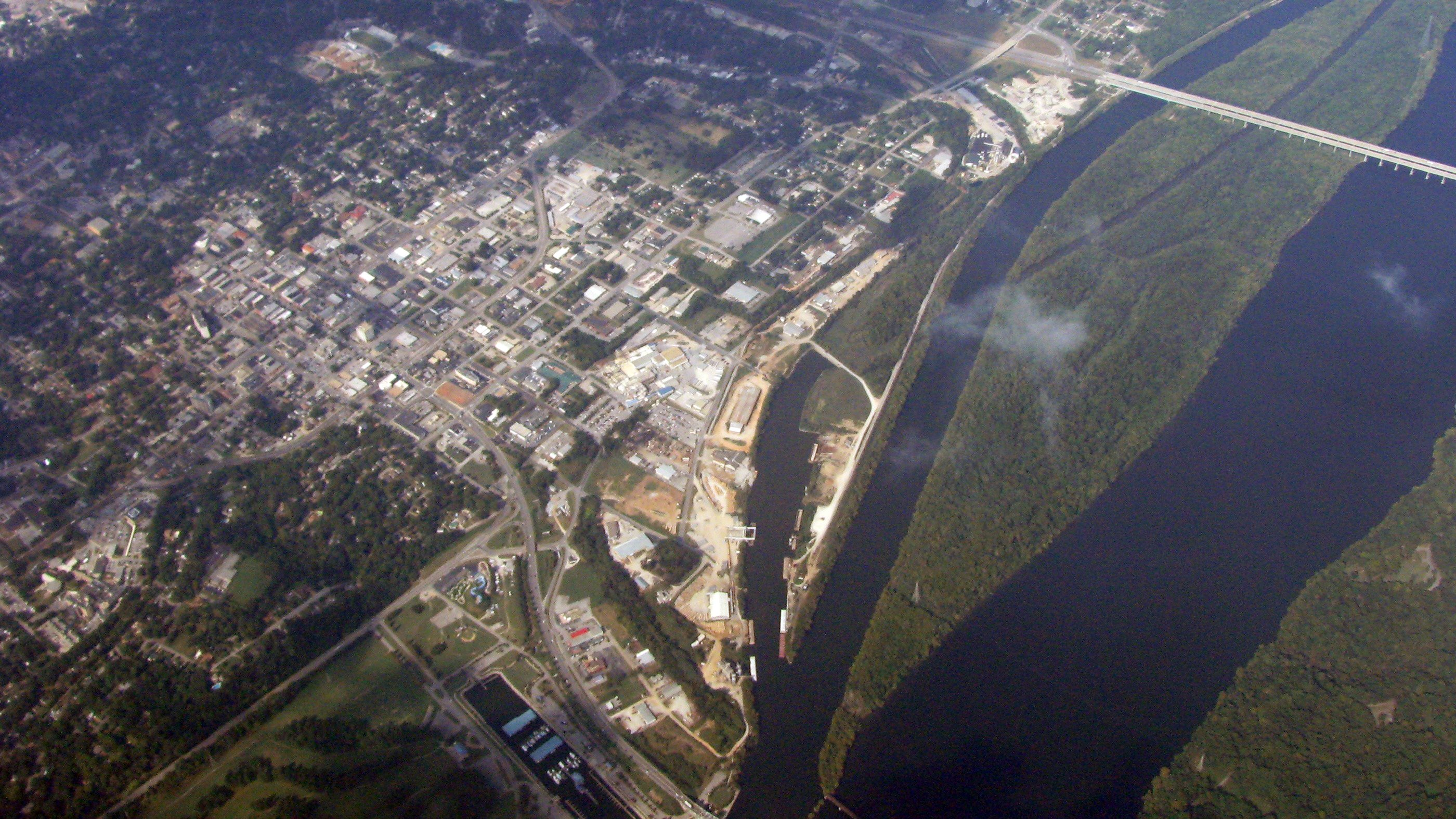 Florence, Alabama. Air view from 9000 feet